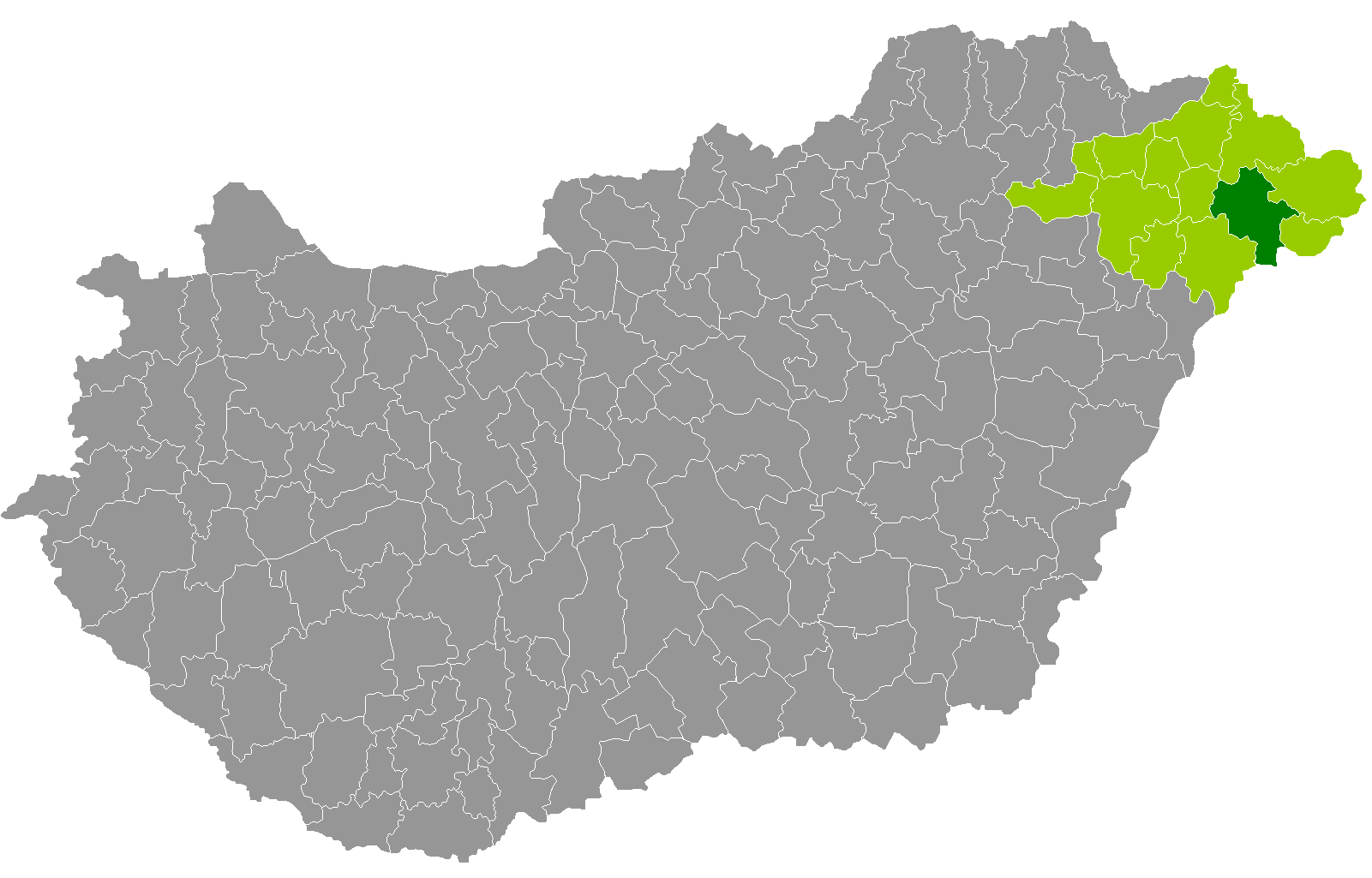 Location of Mátészalka District, Szabolcs-Szatmár-Bereg, Hungary